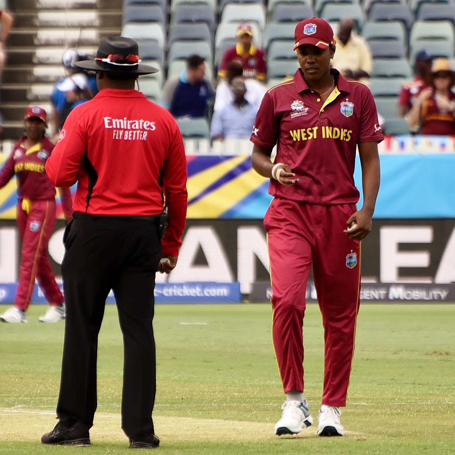 Hayley Matthews walking back to her mark while bowling for the West Indies against Thailand during their 2020 ICC Women's T20 World Cup match at the WACA Ground in Perth, Australia